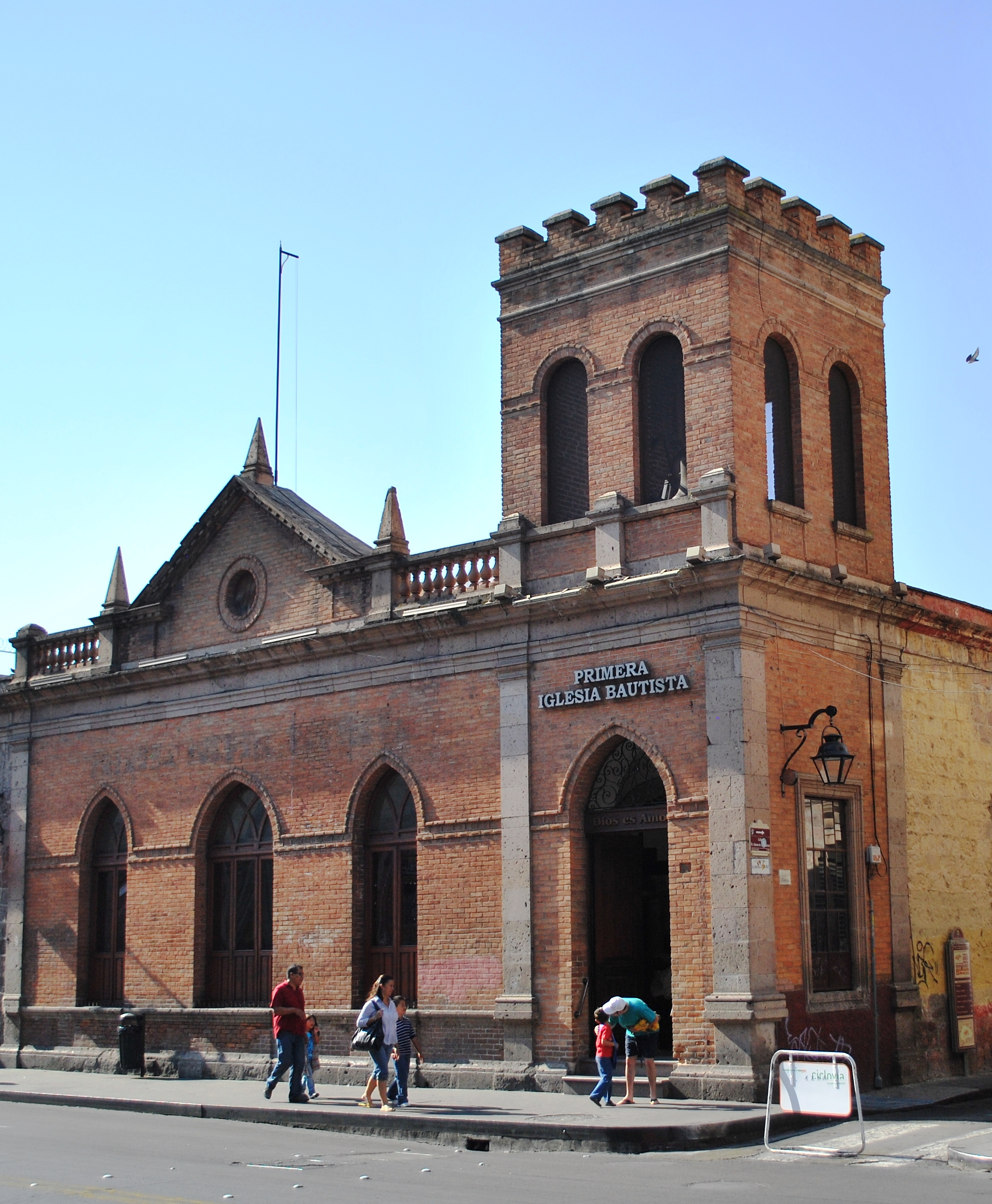 Primera Iglesia Bautista (First Baptist Church) in Morelia